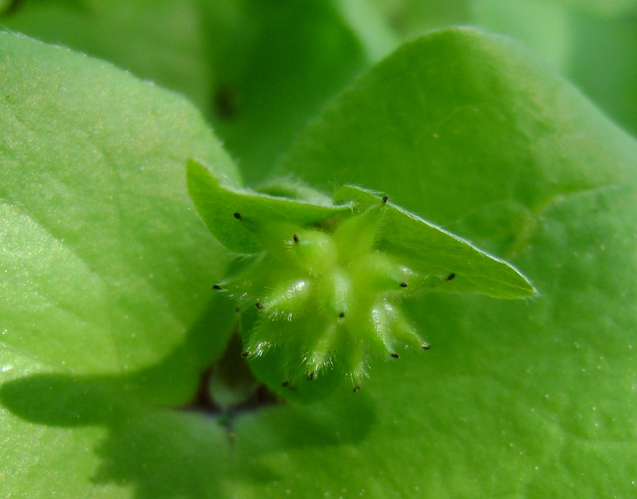 Fruit of Hepatica nobilis. Recz (NW Poland)